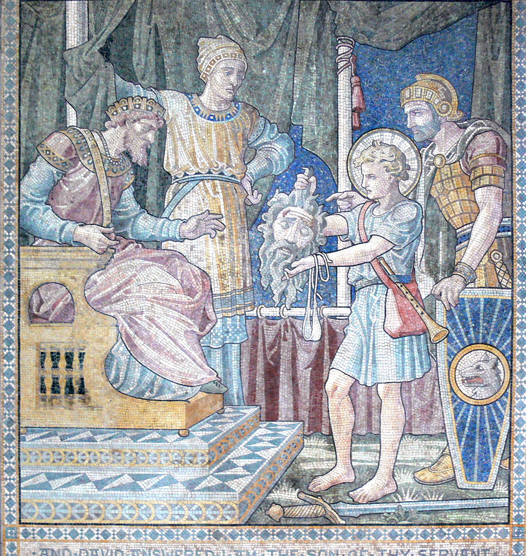 Chester (England). Cathedral: Northern aisle - Mosaics (1883) showing David bringing Goliath´s head to king Saul.